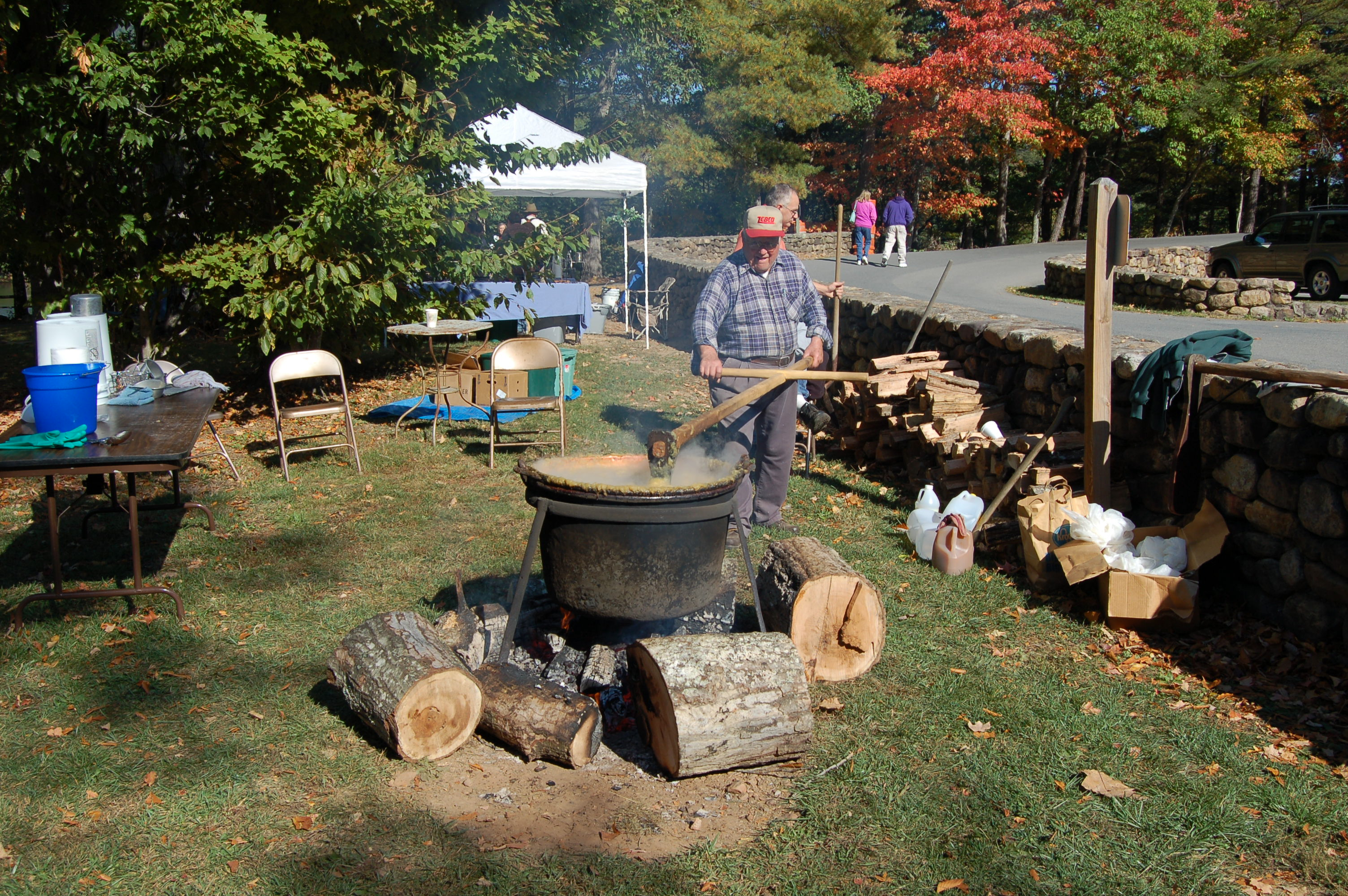 DO - Apple Day Apple Butter Making (Simmons)